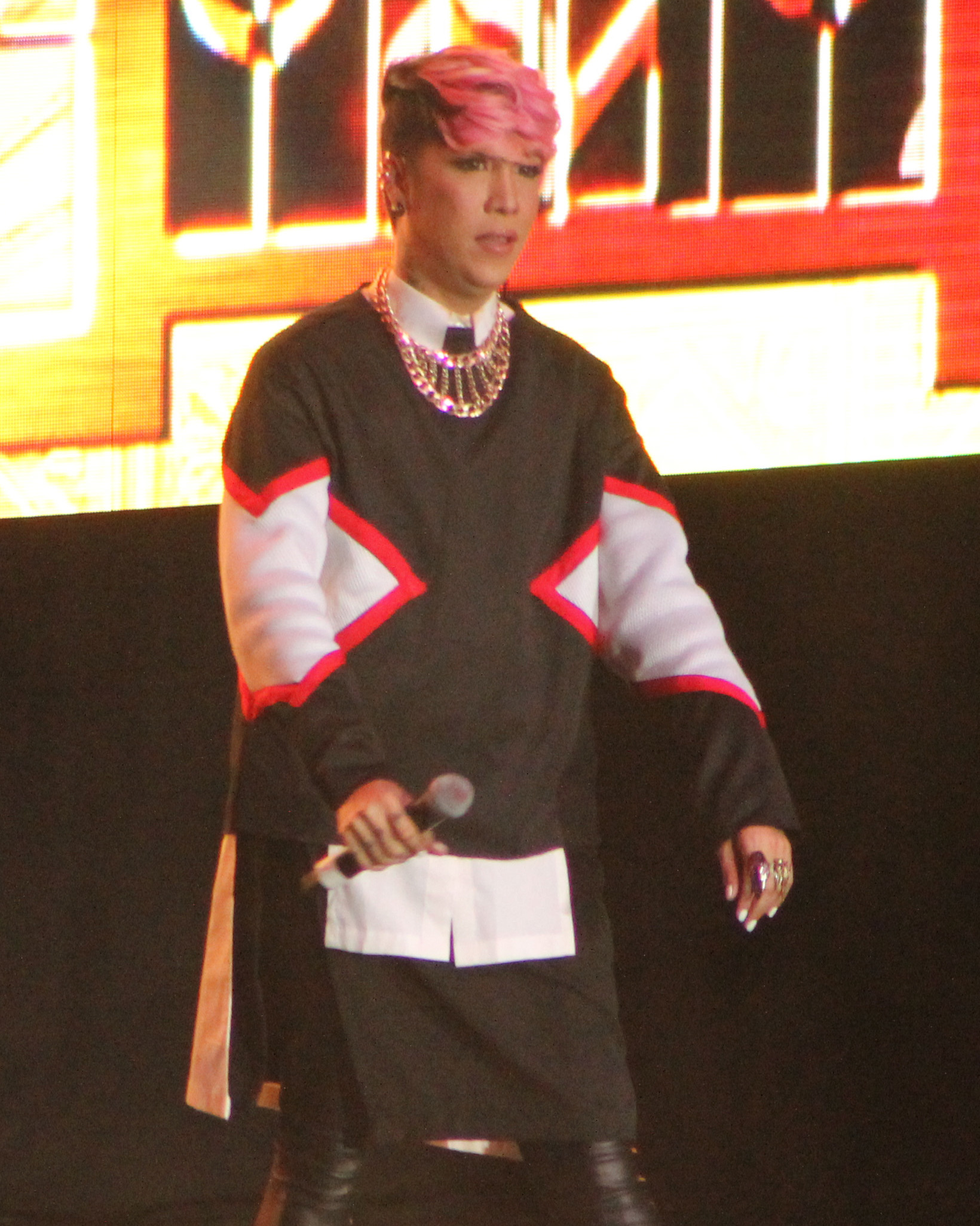 Vice Ganda's entrance during ABS-CBN's concert tour "One Kapamilya Go" in Toronto, Ontario on June 21, 2014